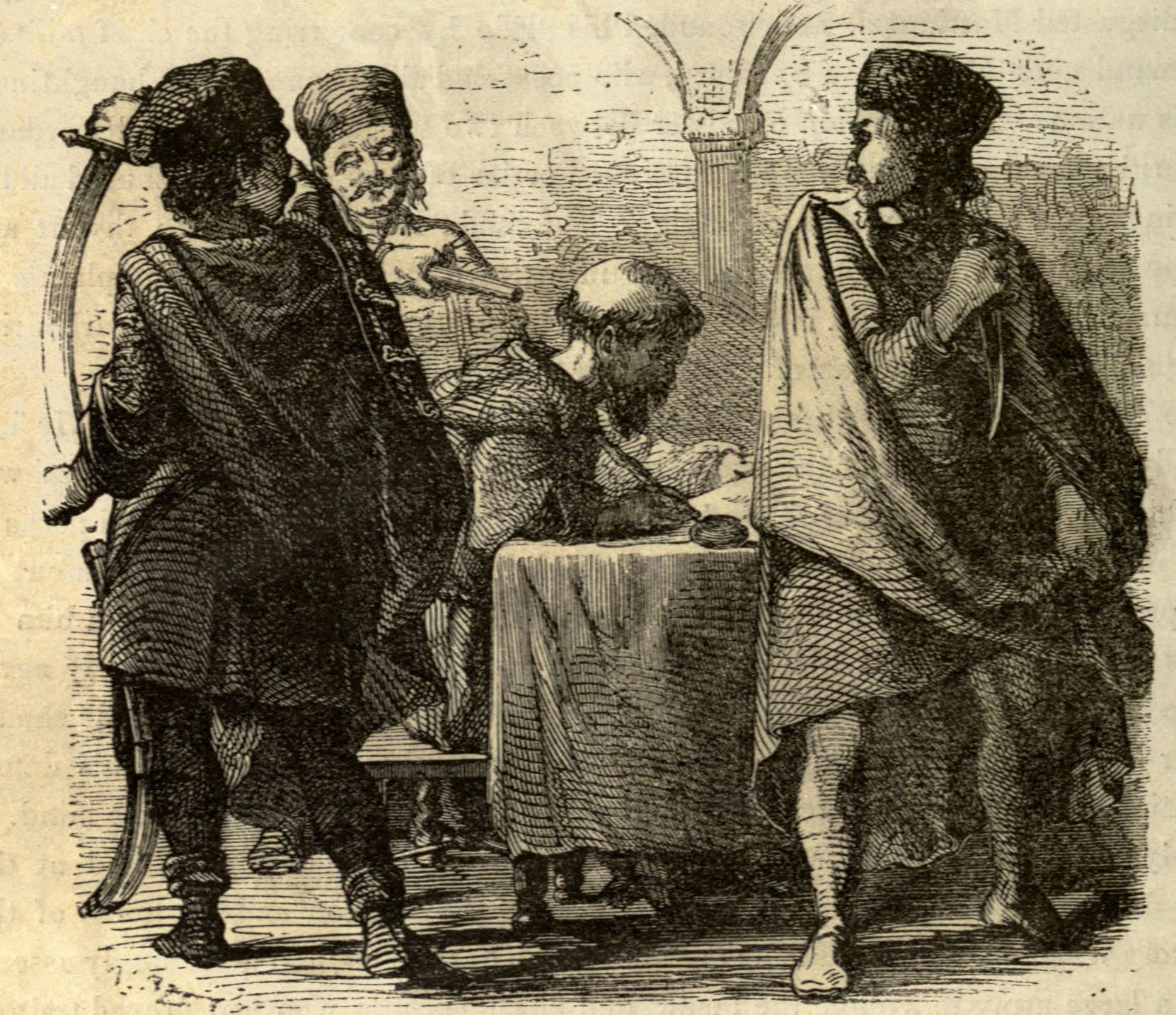 Assassination of Martinuzzi